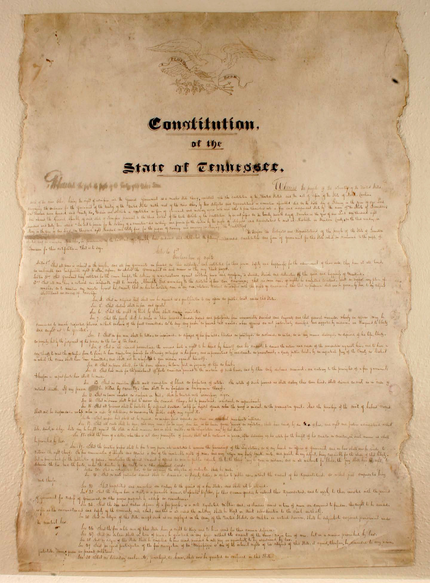 First page of the Constitution of the State of Tennessee, adopted in 1835